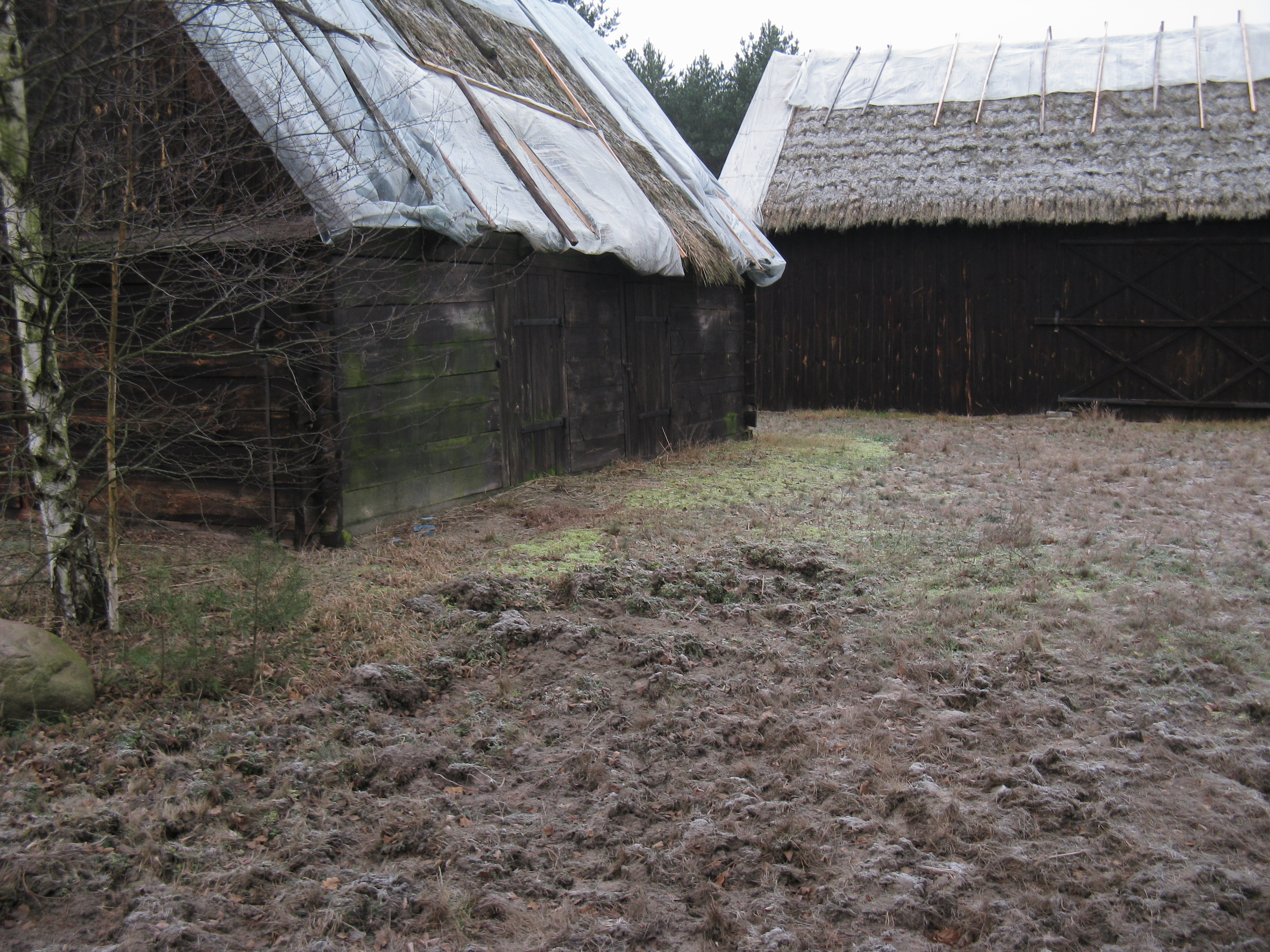 open air museum in Granica